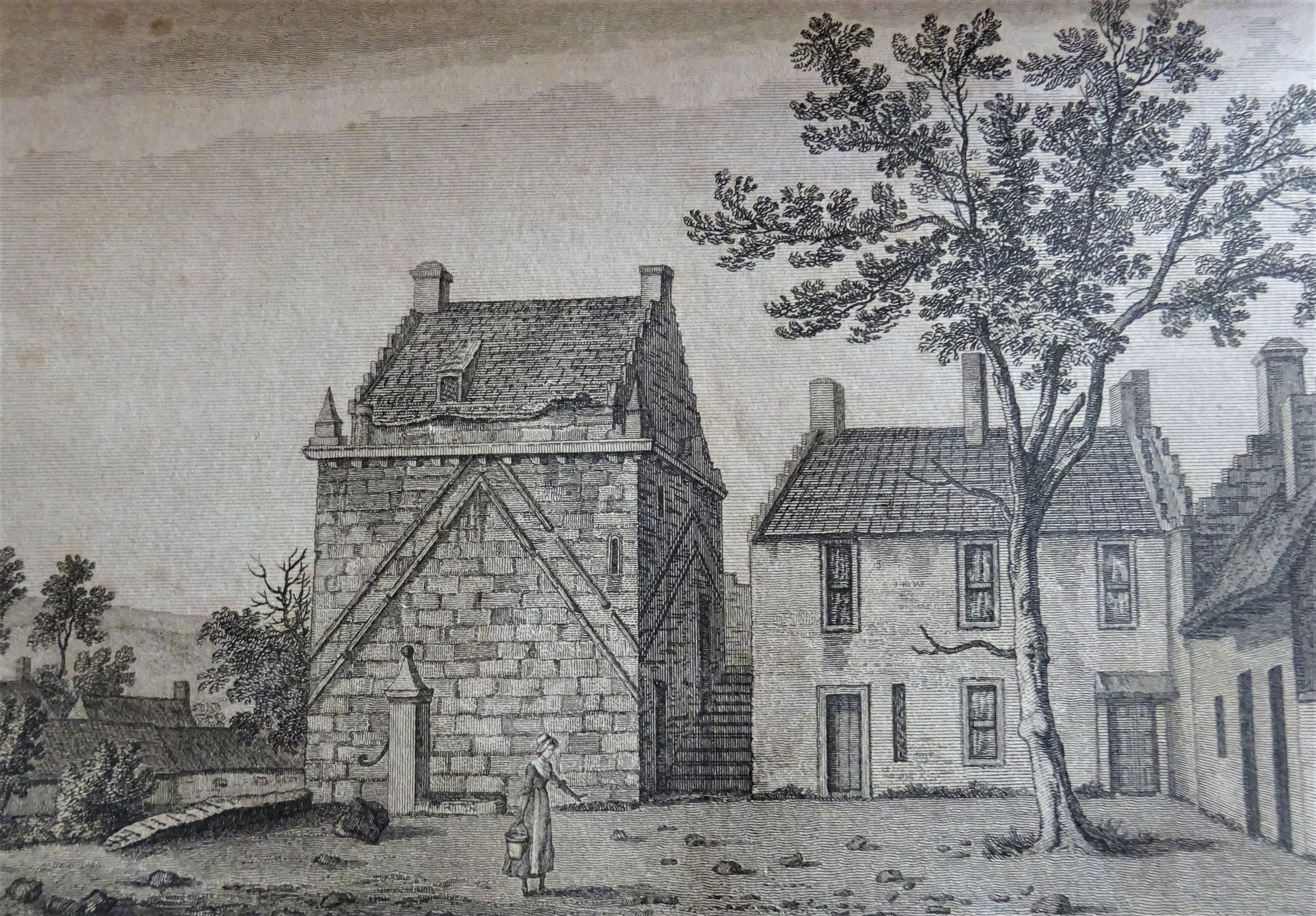 Mauchline Castle or the Abbot's Tower, East Ayrshire. Gavin Hamilton's house stands next to it. A close friend of Robert Burns.